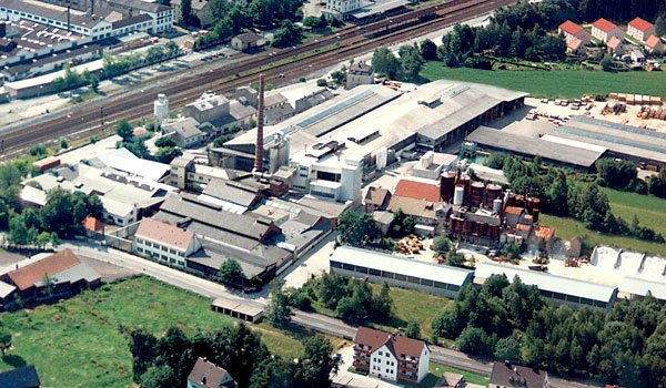 Glasfabrik LAMBERTS in Wunsiedel, aerial photo of the company premises